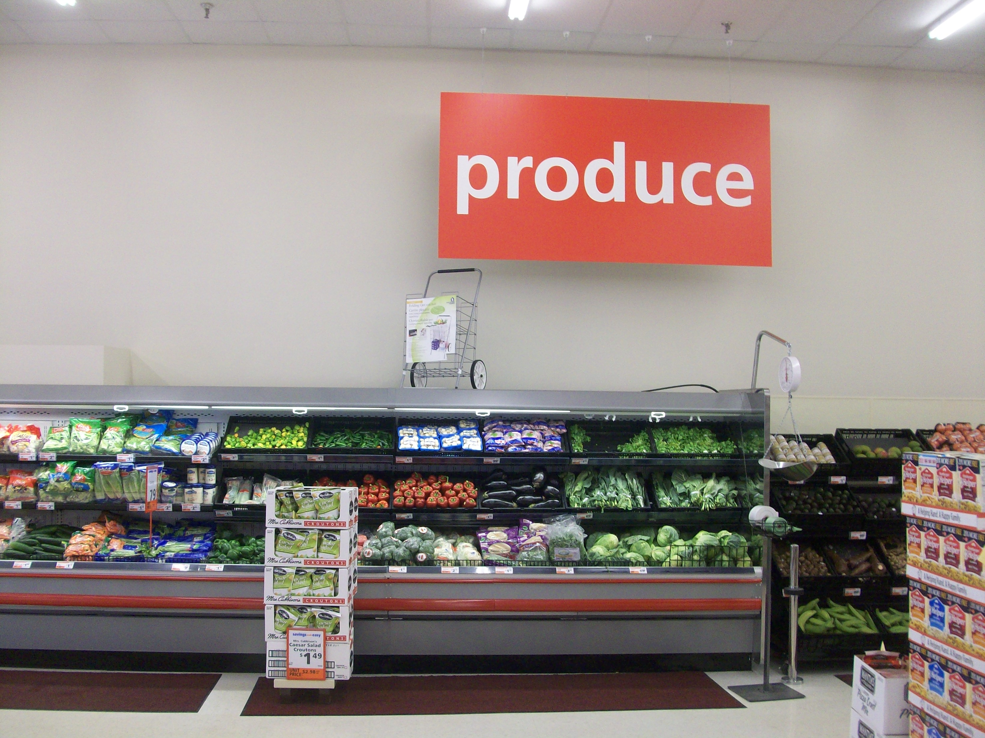 Produce section of Save-A-Lot in Hartford, CT